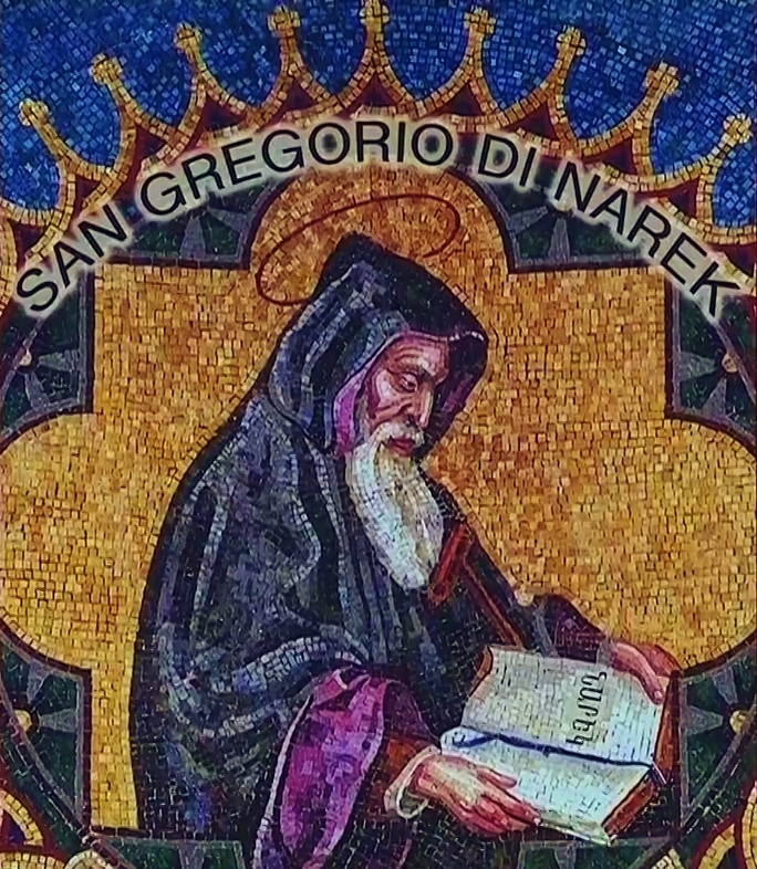 St. Gregory Of Narek Portrait (Grigor Narekatsi)